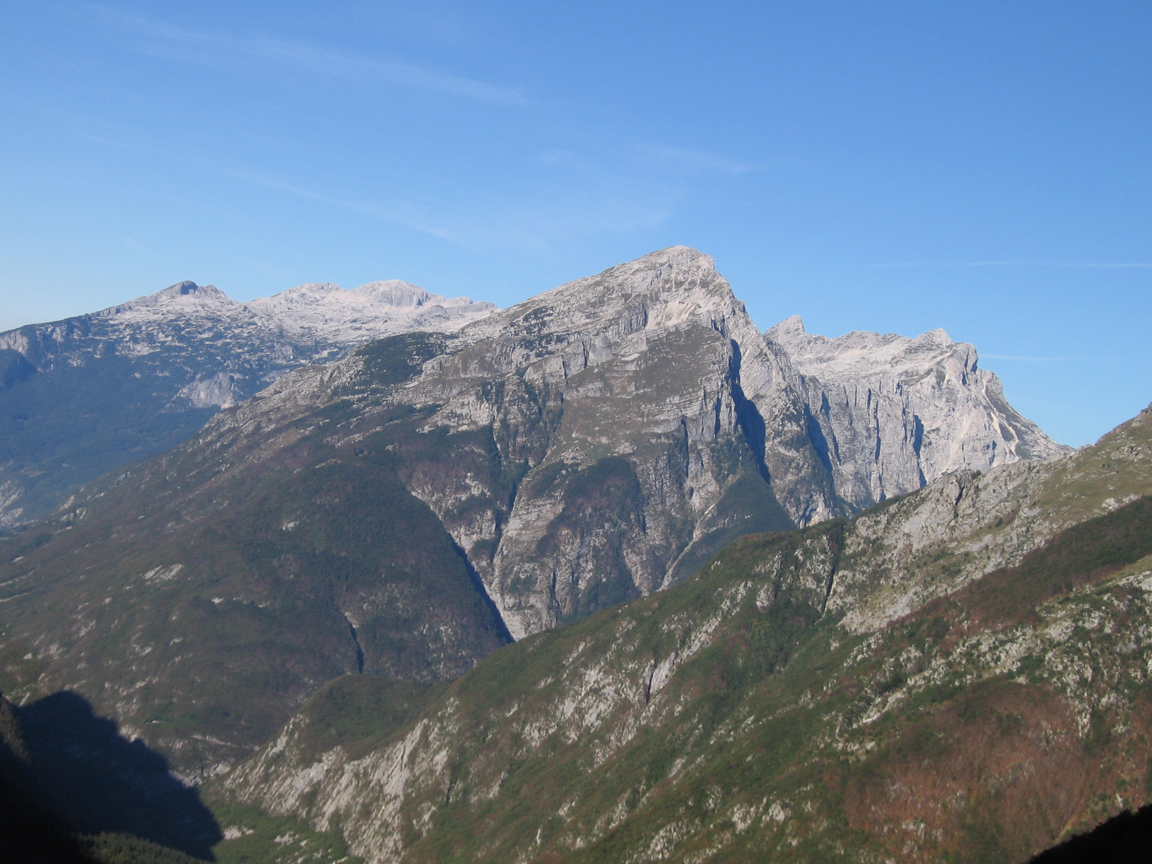 Mt. Rombon above town of Bovec, from Bukovec meadow in Julian Alps